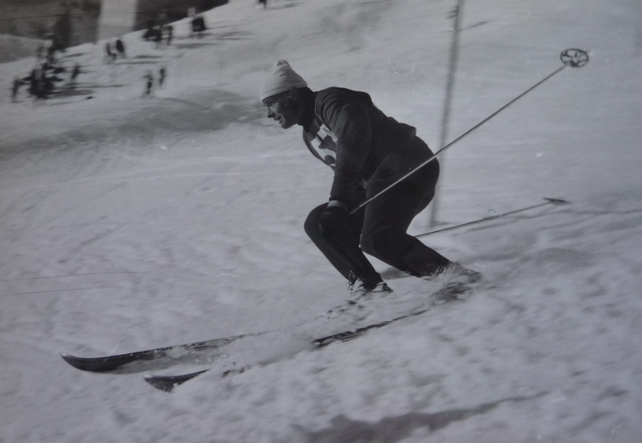 Roland Bläsi won downhill in Switzerland in 1957